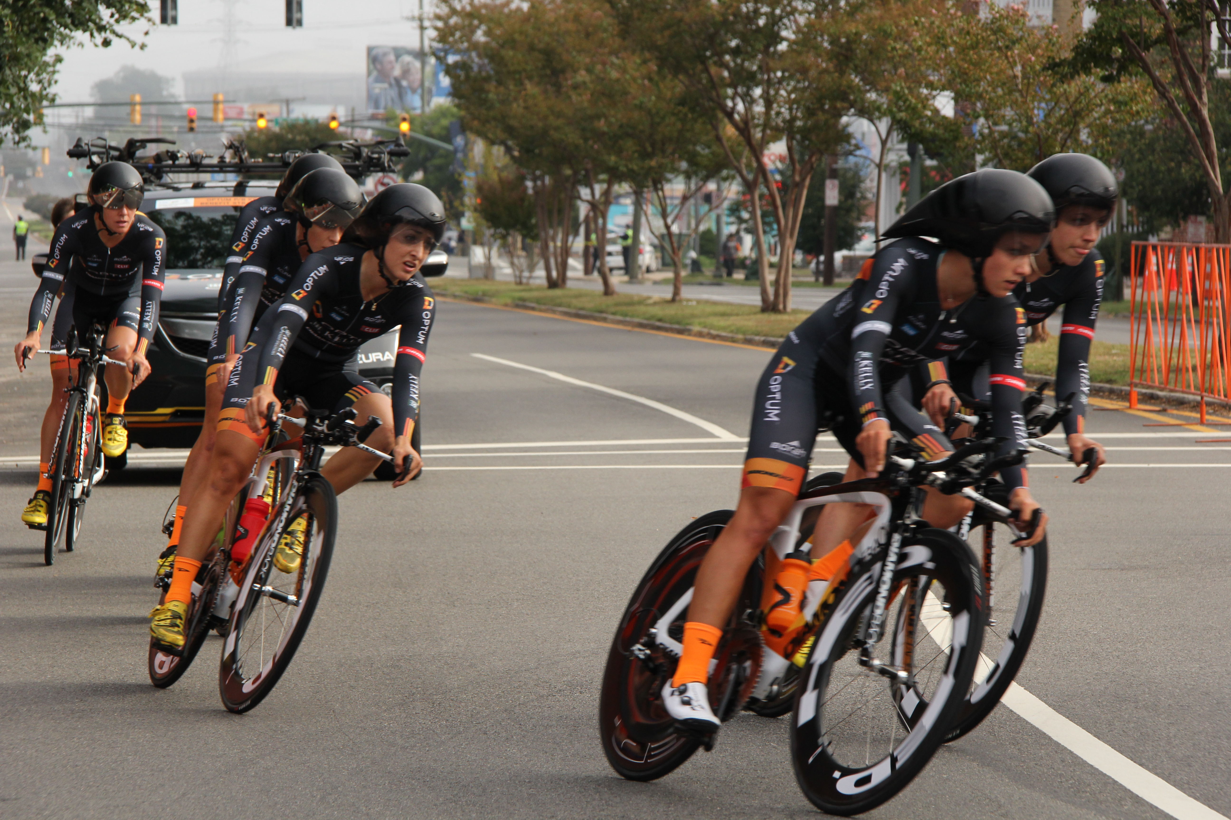 The world has come to Richmond. Welcome! Bienvenidos! Willkommen! 2015 UCI Road World Championships, in Richmond, United States